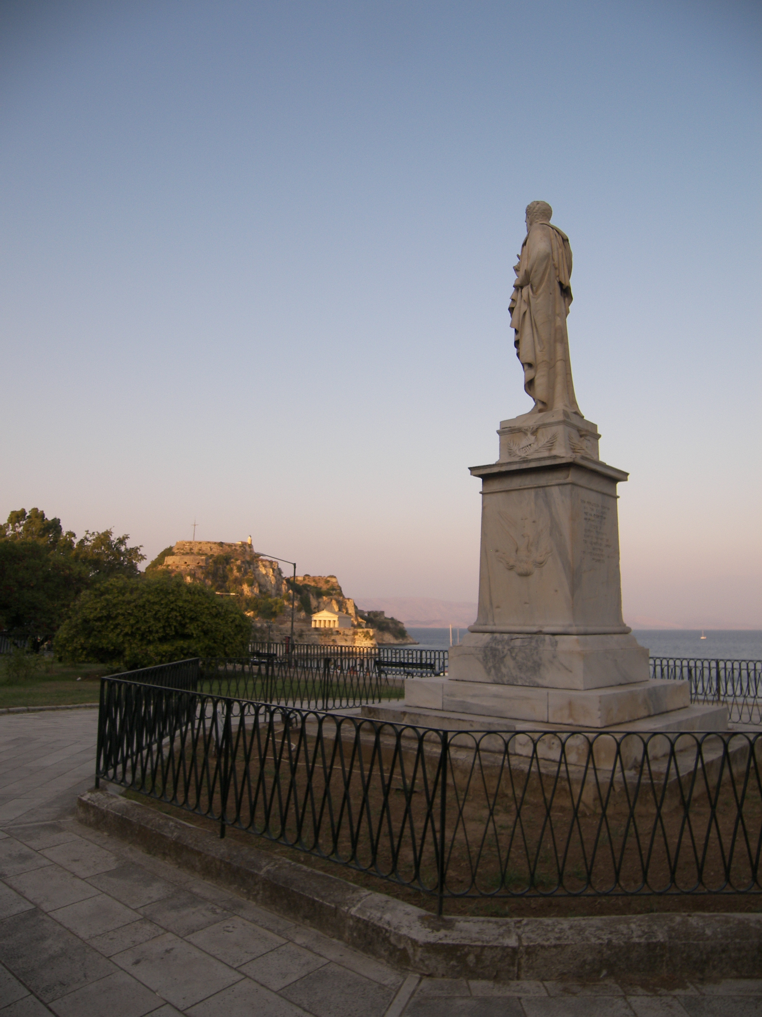 Filename